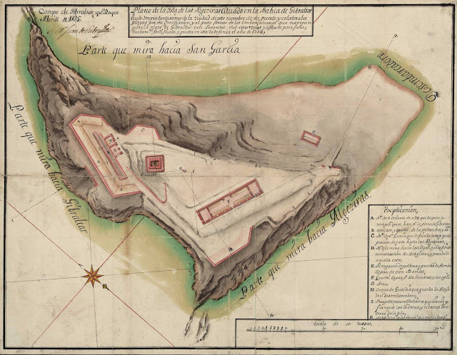 Maps of around the time od the 13th siege in the 1700s of Gibraltarr